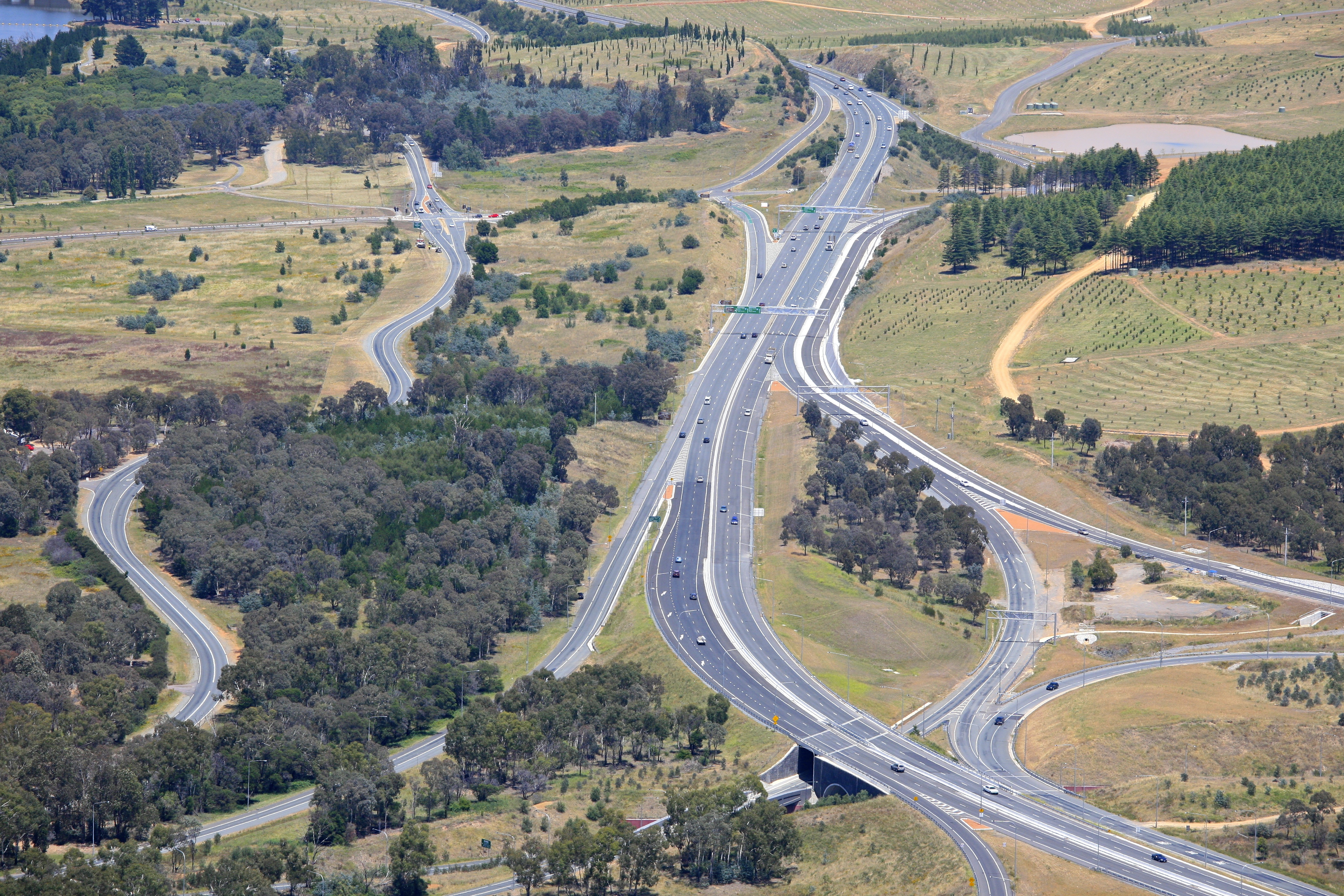 Highways into Canberra